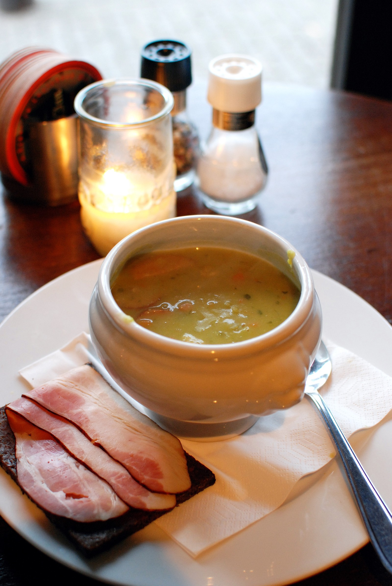 'Erwtensoep, roggebrood met katenspek': Dutch for "pea soup, rye bread with smoked bacon"; it is a traditional combination in the Netherlands